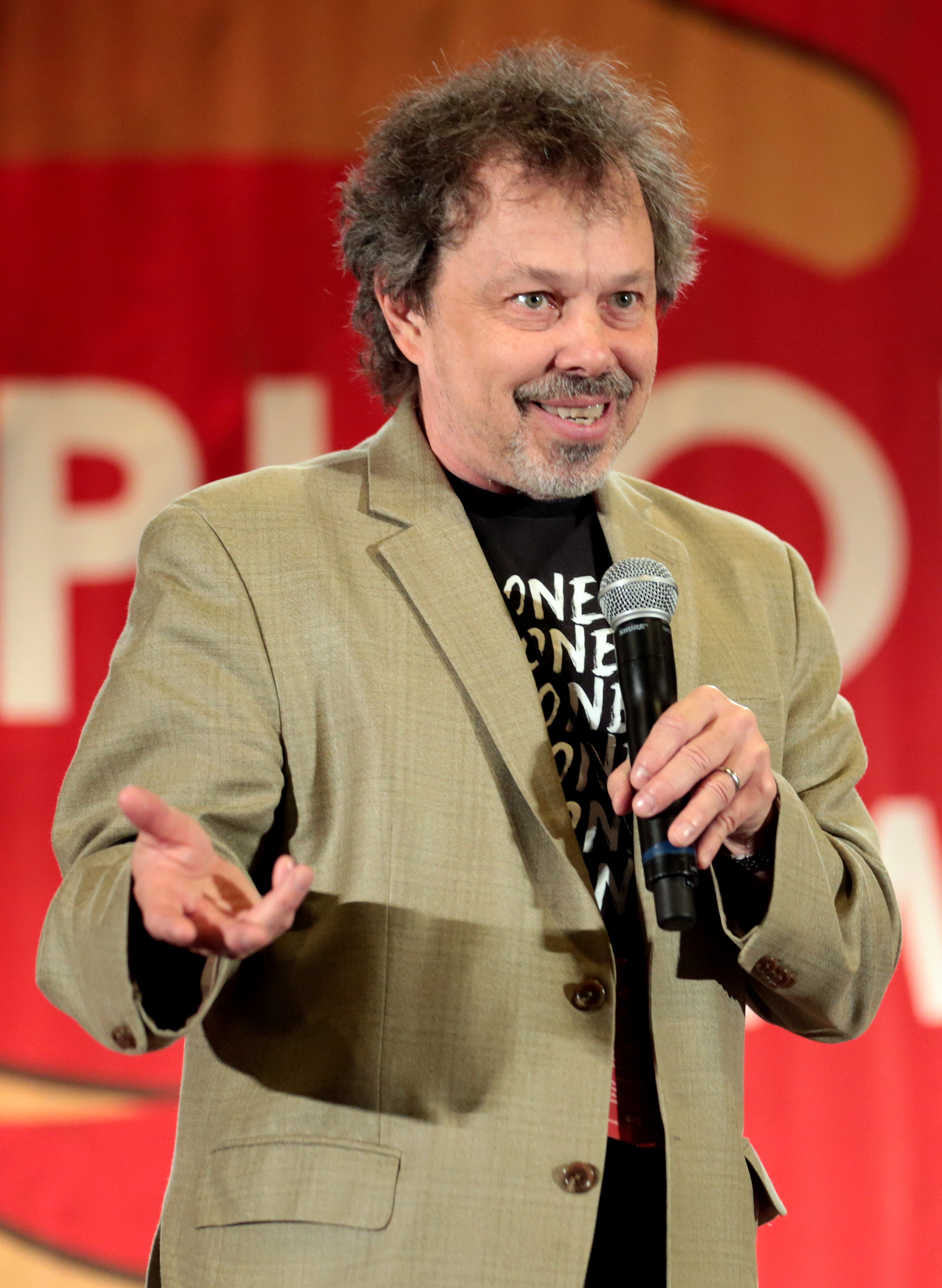 Curtis Armstrong speaking at the 2017 Phoenix Comicon in Phoenix, Arizona.